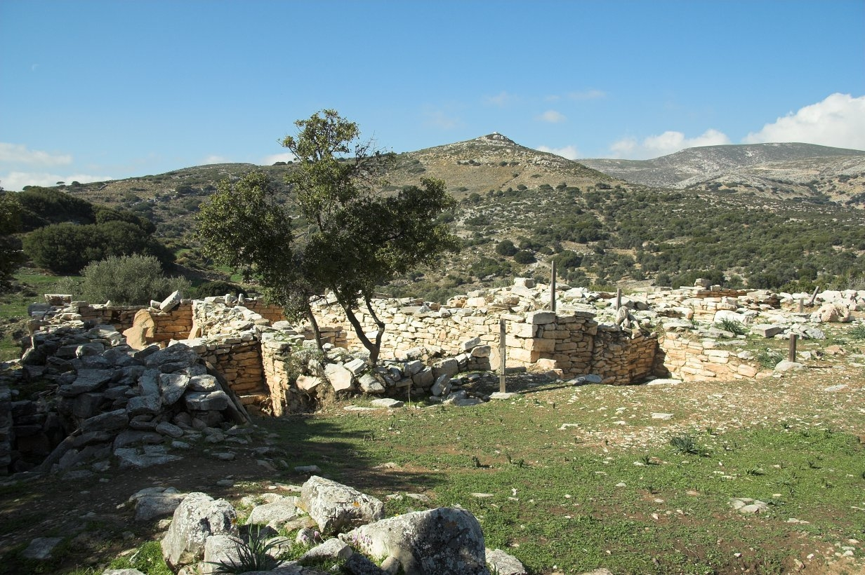 Hellenistic settlement at Pyrgos Cheimarrou (Chimarru).